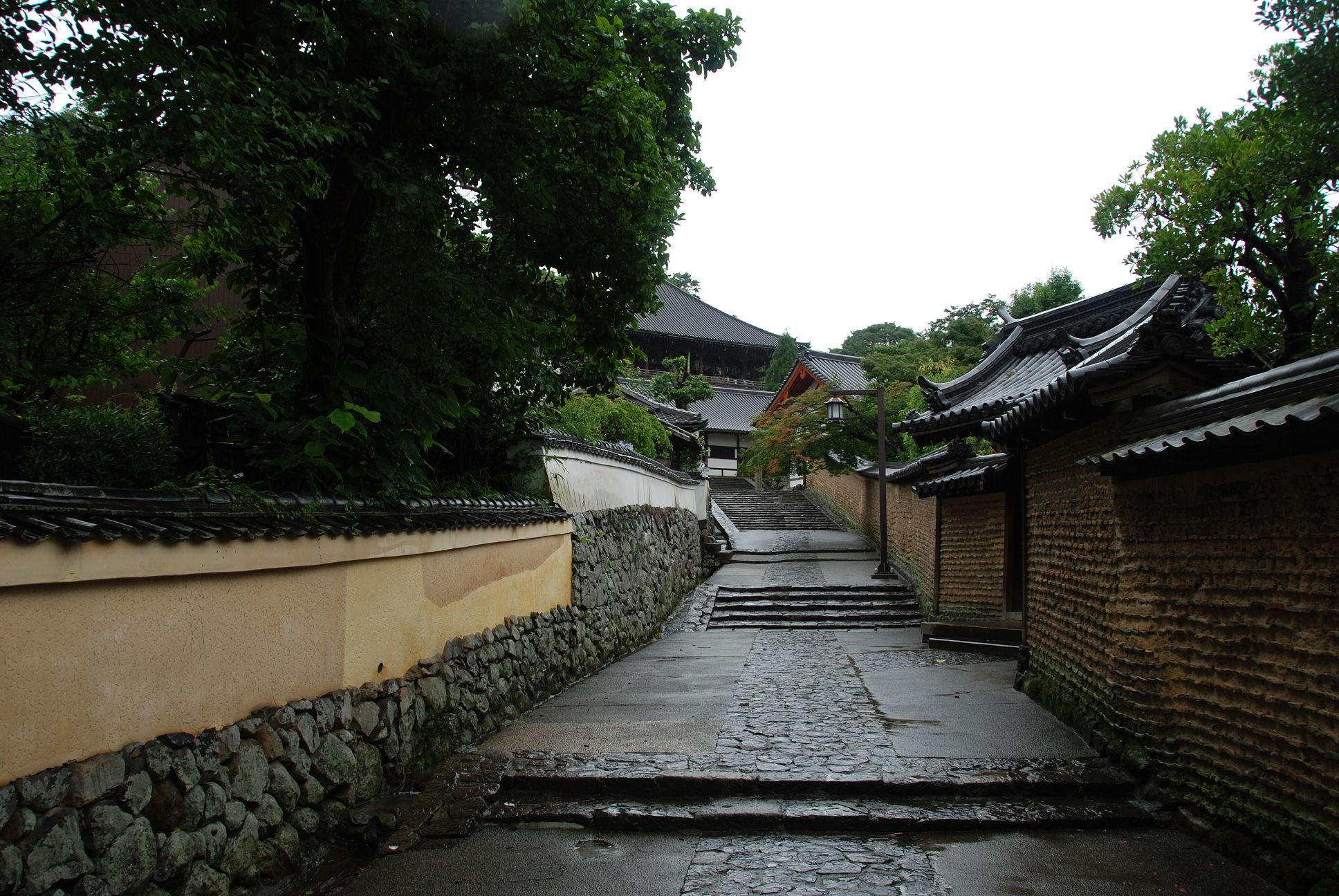 Zoshicho, Nara, Nara Prefecture 630-8211, Japan